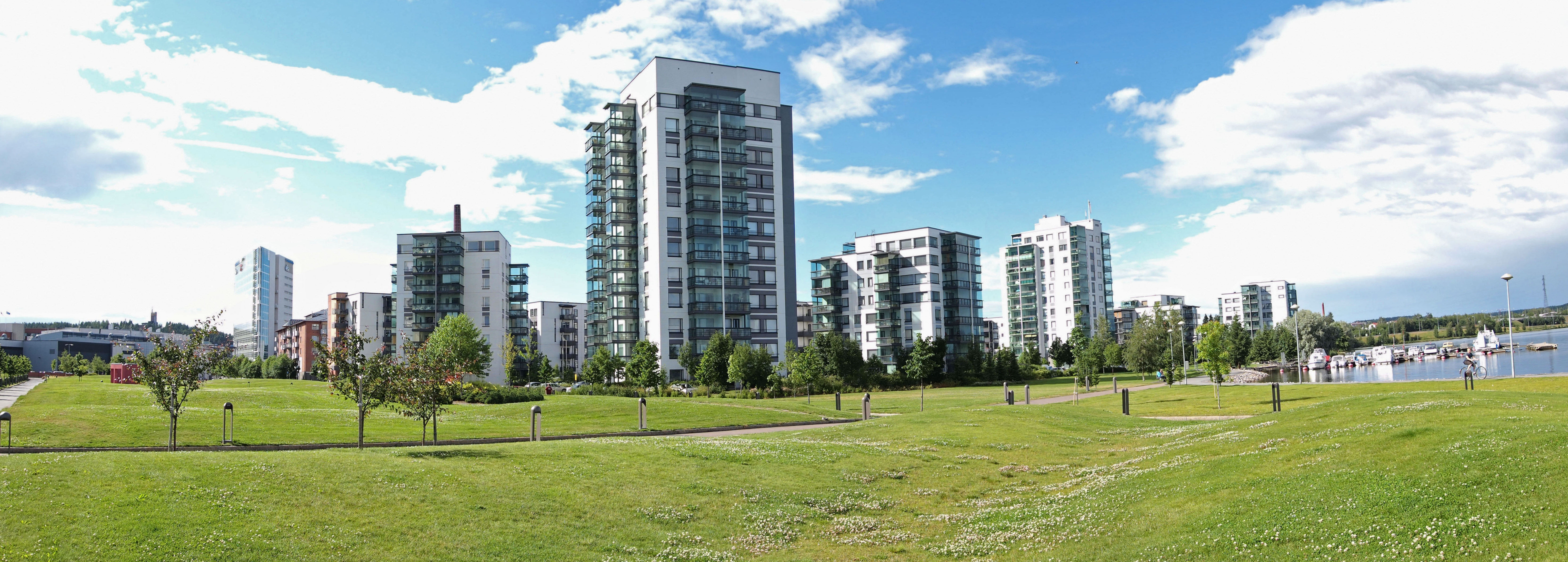 Apartment buildings in Lutakko.